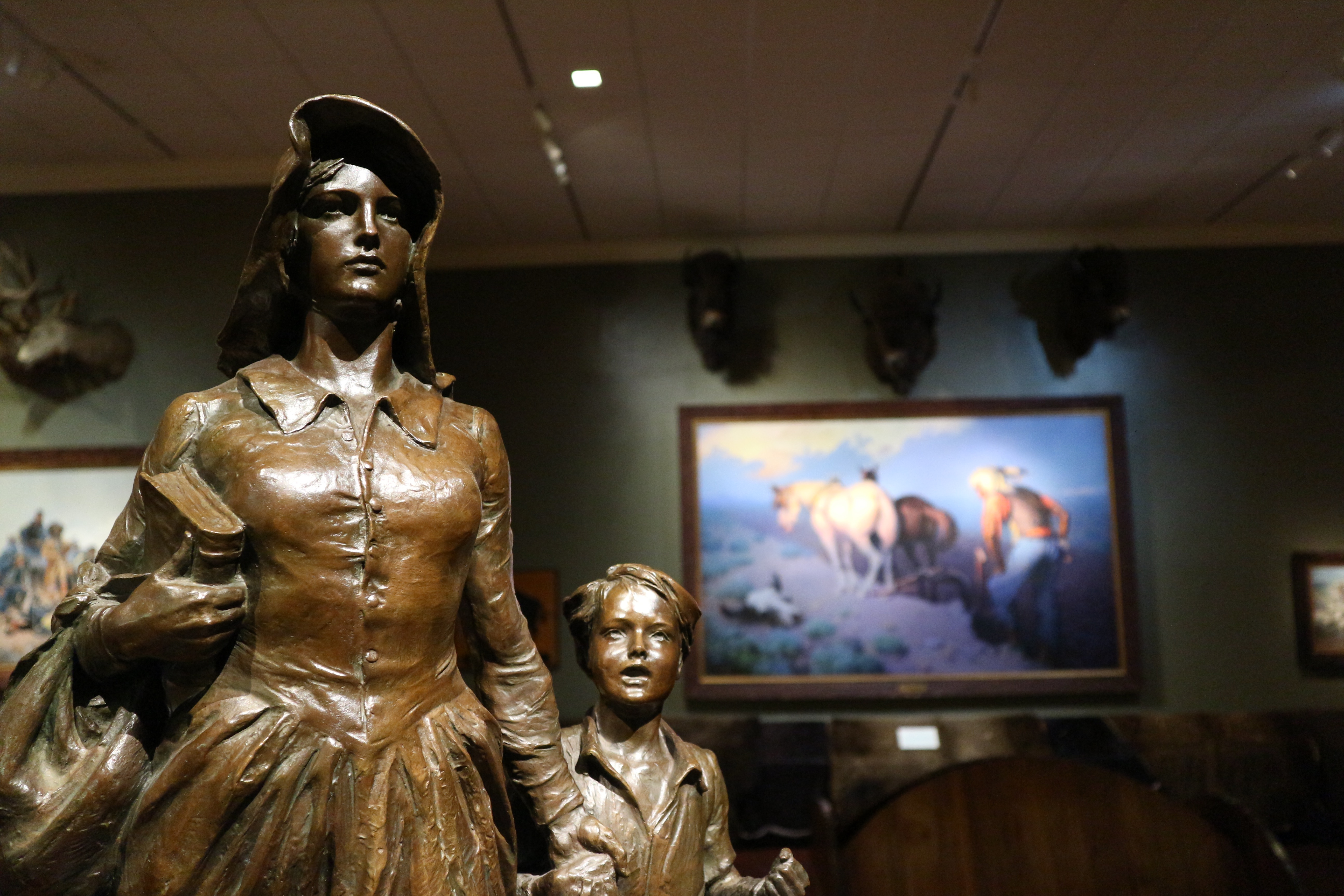 The 50,000 square foot museum features a world-class collection of Western Art, Native American Artifacts, Colt Firearm Collection, interactive train, as well as memorabilia from the Phillips Oil collection. The winning Pioneer Woman bronze is pictured here, as well as a guest favorite, Visions of Yesterday by W.R. Leigh.